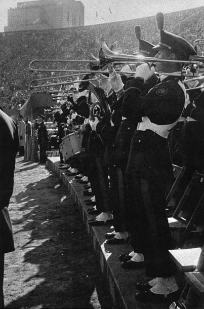 At the end of the 1956 Pitt football game against Notre Dame at Pitt Stadium, which the Panthers won 26-13, the Pitt Band salutes the team with the Pitt Victory Song.